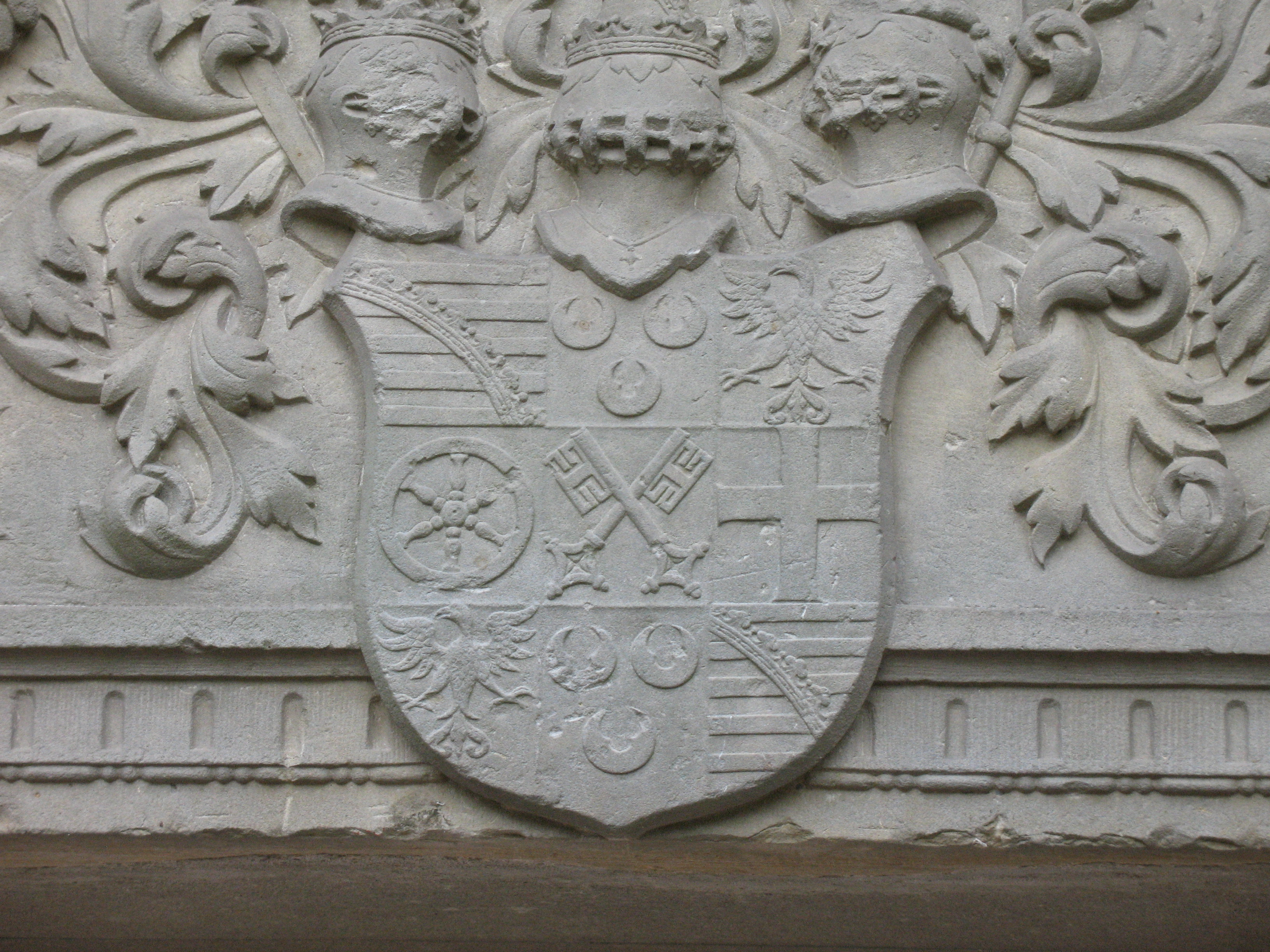 coat of arms, Prince-Archbishop Henry of Saxe-Lauenburg, castle of Hagen, Lower Saxony, Cuxhaven. The coat-of-arms shows in the upper left ninth the Ascanian barry of ten, in or and sable, covered by a crancelin of rhombs (they are not shown in this undetailed copy) bendwise in vert. The crancelin symbolises the Saxon ducal crown. The central upper ninth shows in argent three water-lily leaves in gules, standing for the County of Brehna. The right upper ninth displays in azure an eagle crowned in or (the crown is missing here), representing the imperial Pfalzgraviate of Saxony. The left middle ninth shows the coat-of-arms of the Prince-Bishopric of Osnabrück in or a sable wheel, the central middle ninth shows the coat-of-arms of the Prince-Archbishopric of Bremen, in gules two crisscrossed keys in argent, right middle ninth displays in argent a cross in gules, the coat-of-arms of the Prince-Bishopric of Paderborn. The lower ninths are repeating the upper ninths in opposite consequence.